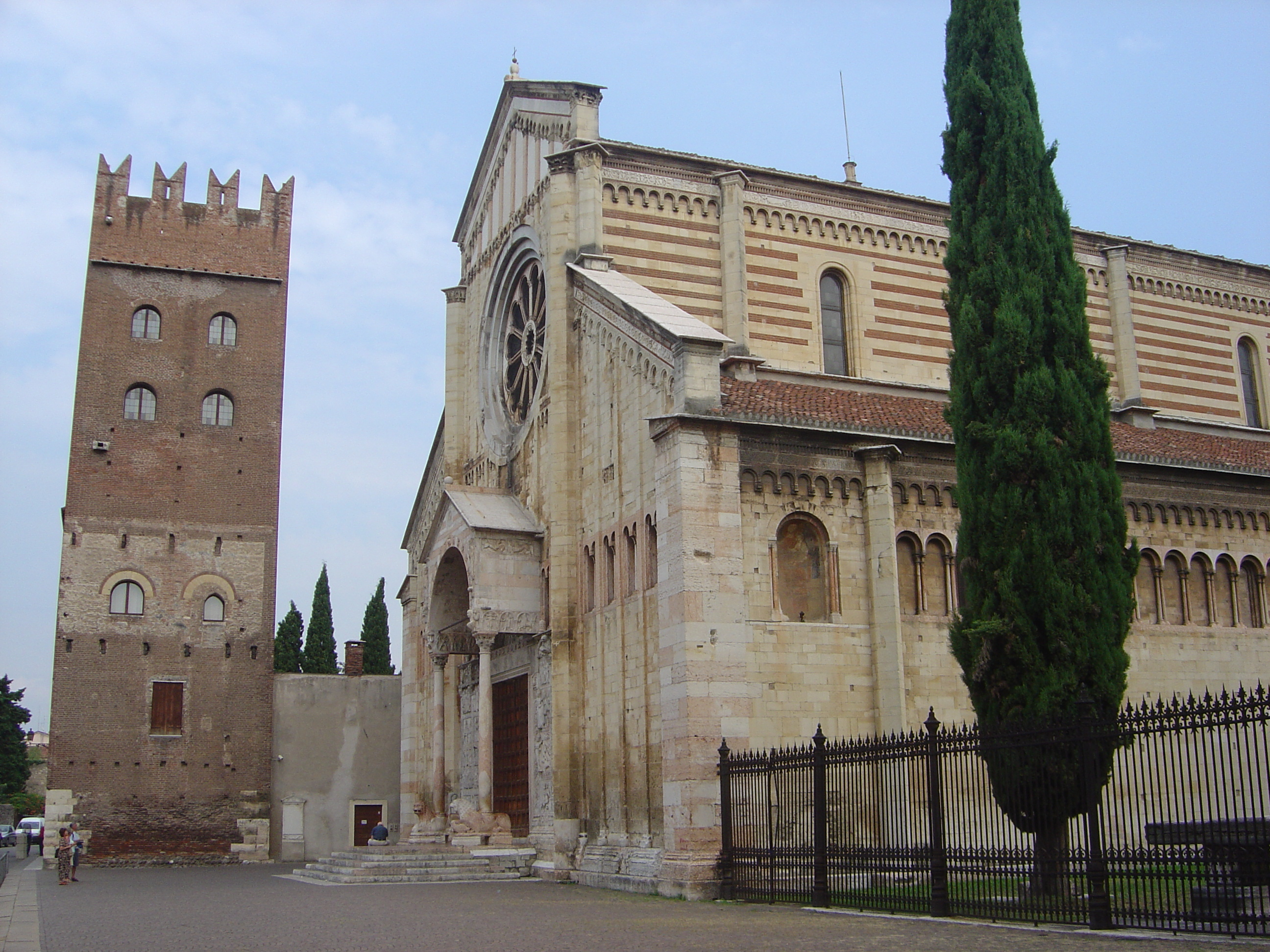 San Zeno basilica, Verona, Italy